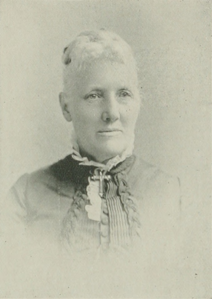 image from